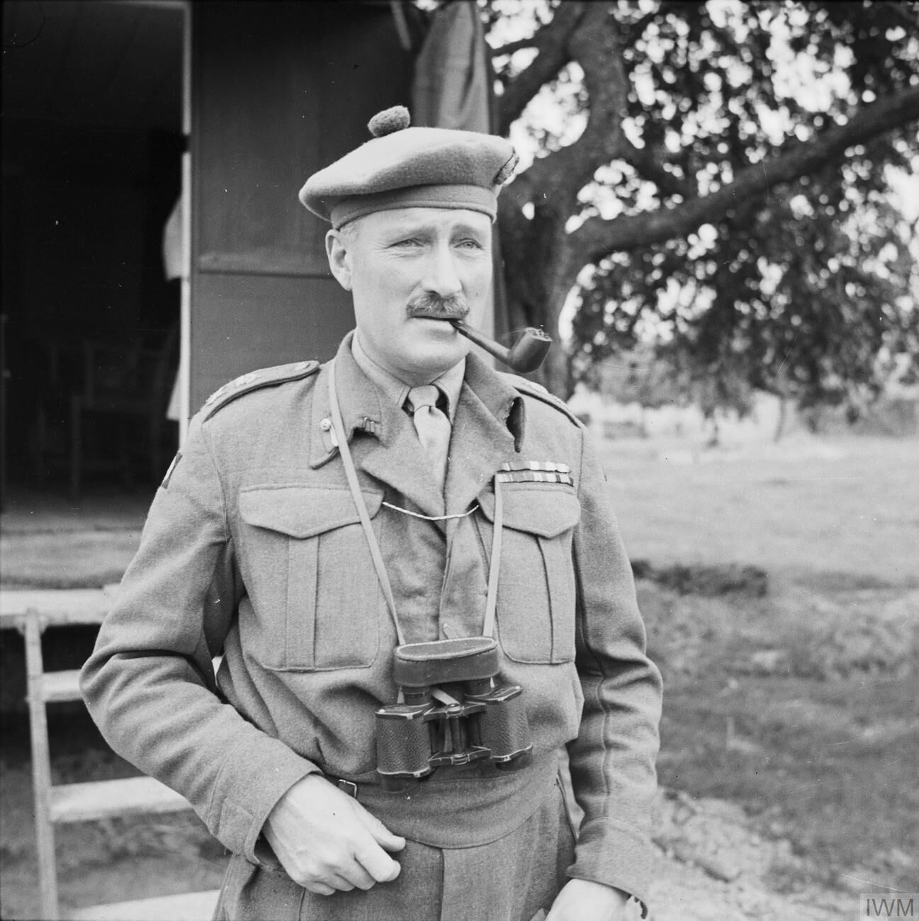 General Sir Neil Ritchie as commander of 12th Corps in France.